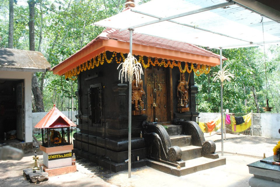 Shiv Temple